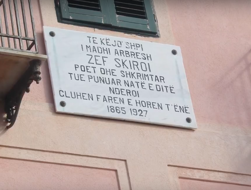 Marble plaque placed on the house of the poet poet Giuseppe Schirò, the greatest scholar of the Albanian language in Sicily.